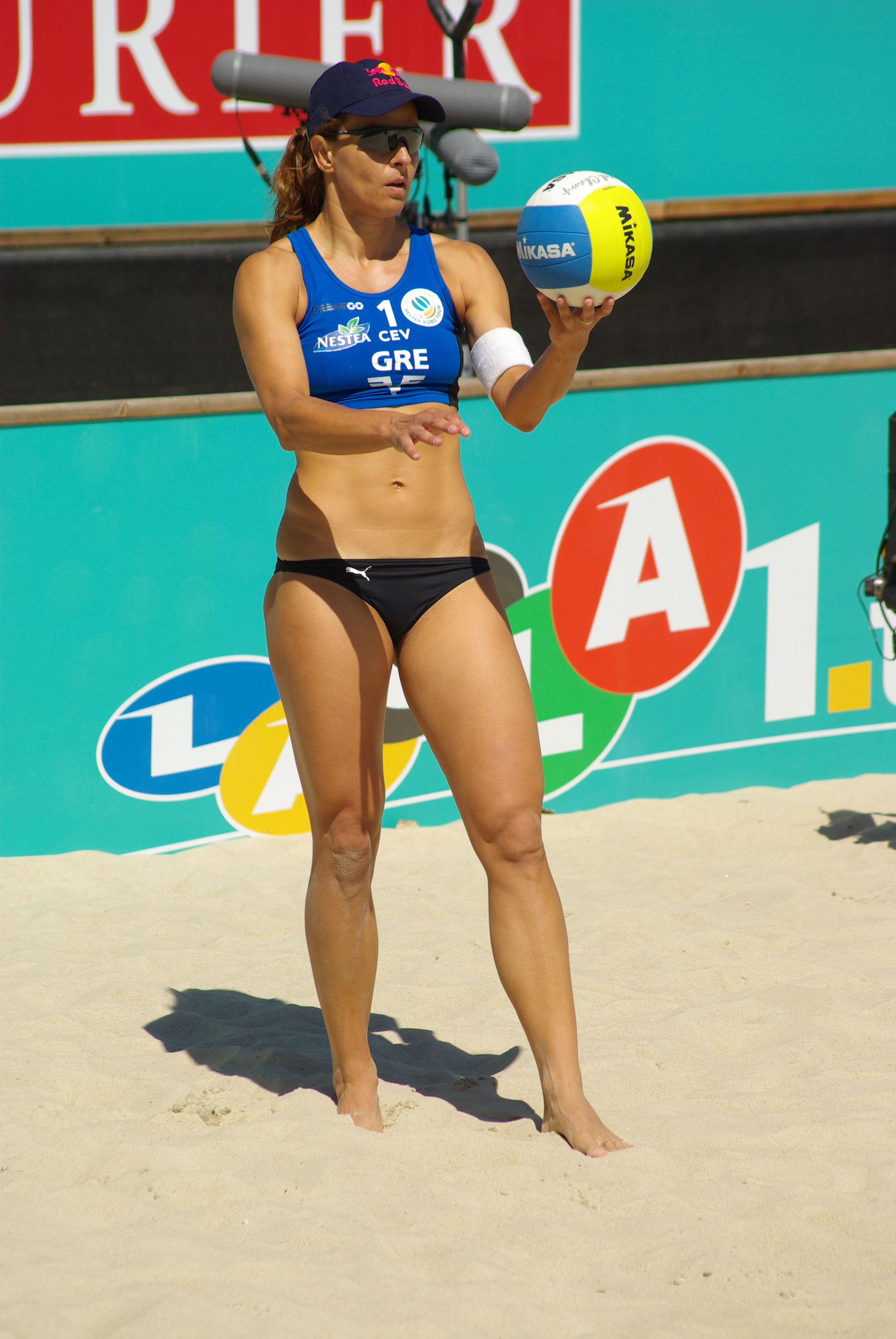 Greek Beach volleyball player Vassiliki Karadassiou at the European Championship Tour 2008 Austrian Masters in St. Pölten.